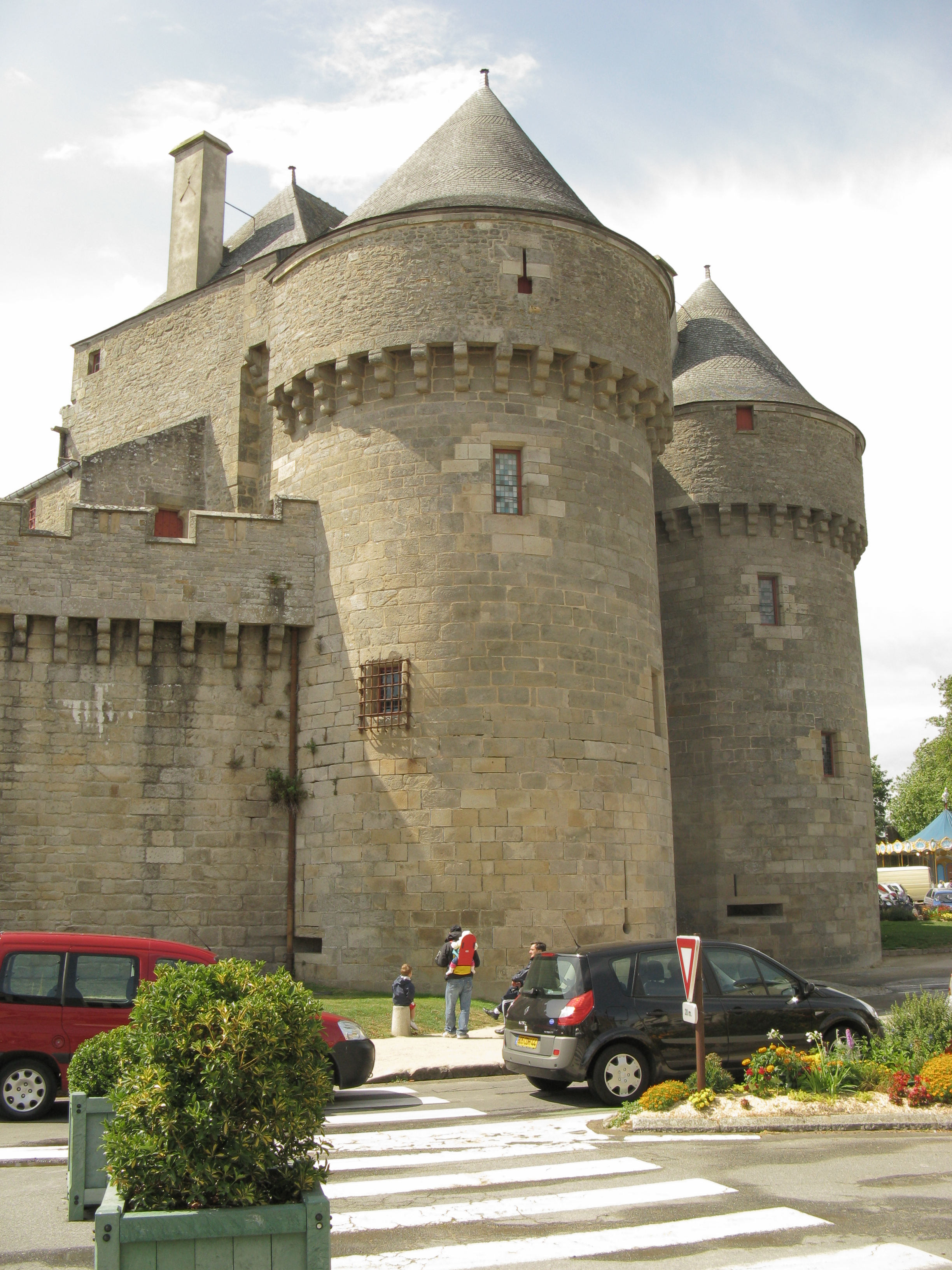 Porte Saint-Michel at Guérande, Loire-Atlantique, France.